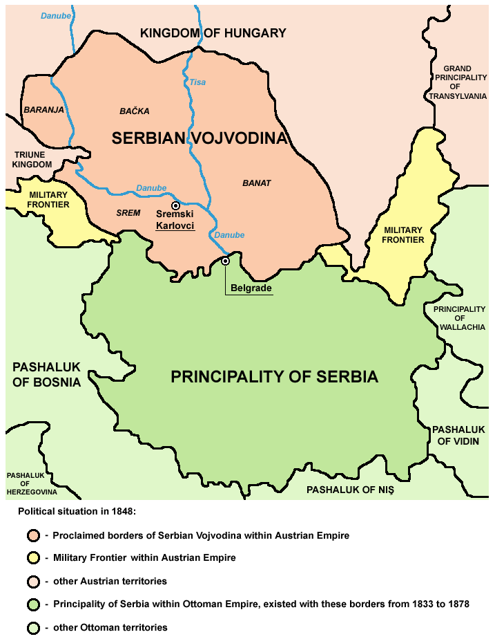 Principality of Serbia (autonomous principality within the Ottoman Empire) and Serbian Vojvodina (proclaimed autonomous voivodeship within the Austrian Empire) in 1848.